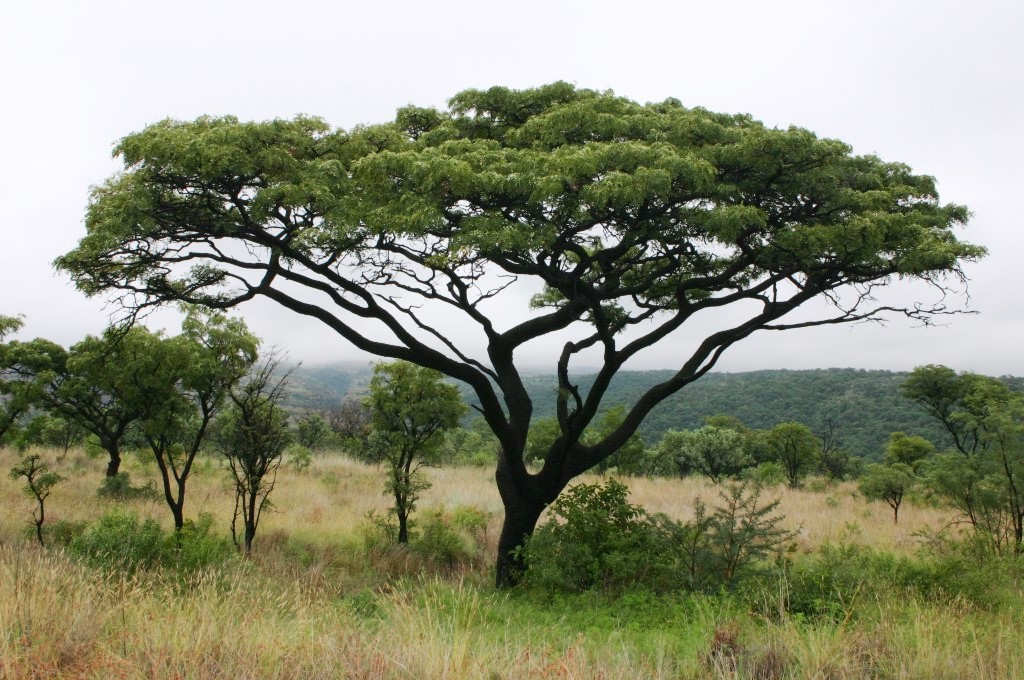 Wild Syringa in South Africa